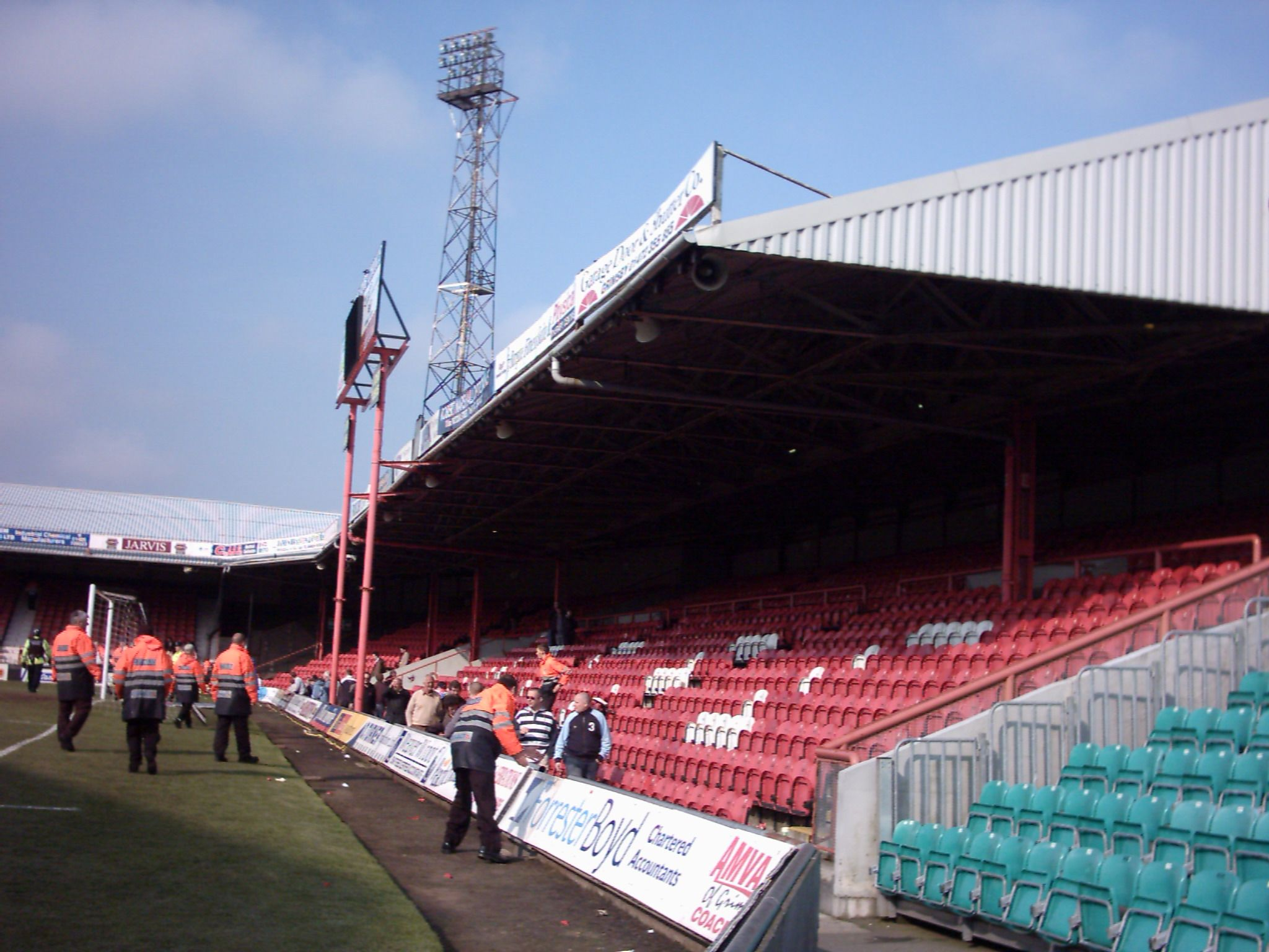 Taken by user:superbfc on 2004-05-01 with TCM 3.2 MPix camera